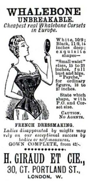 "Small waist sizes 15 to 23 inches"